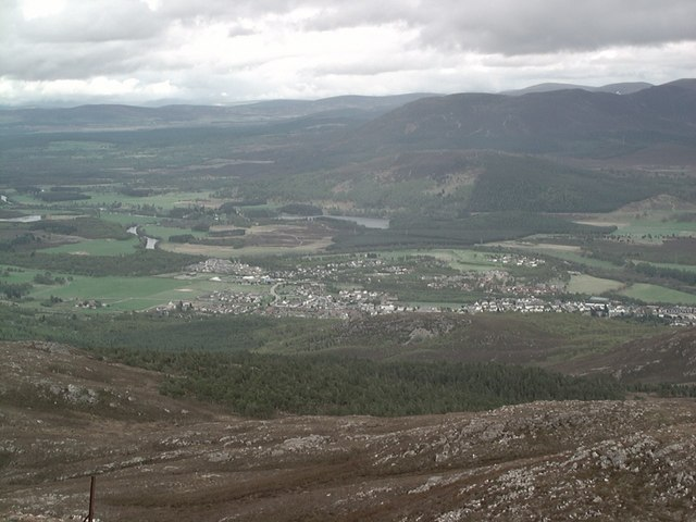 Aviemore from Carn Dearg Mor